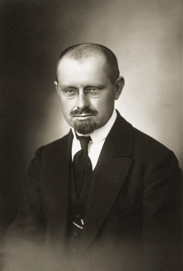 Aleksandras Stulginskis. One of the signatories of Lithuanian independence act. President of Lithuania.